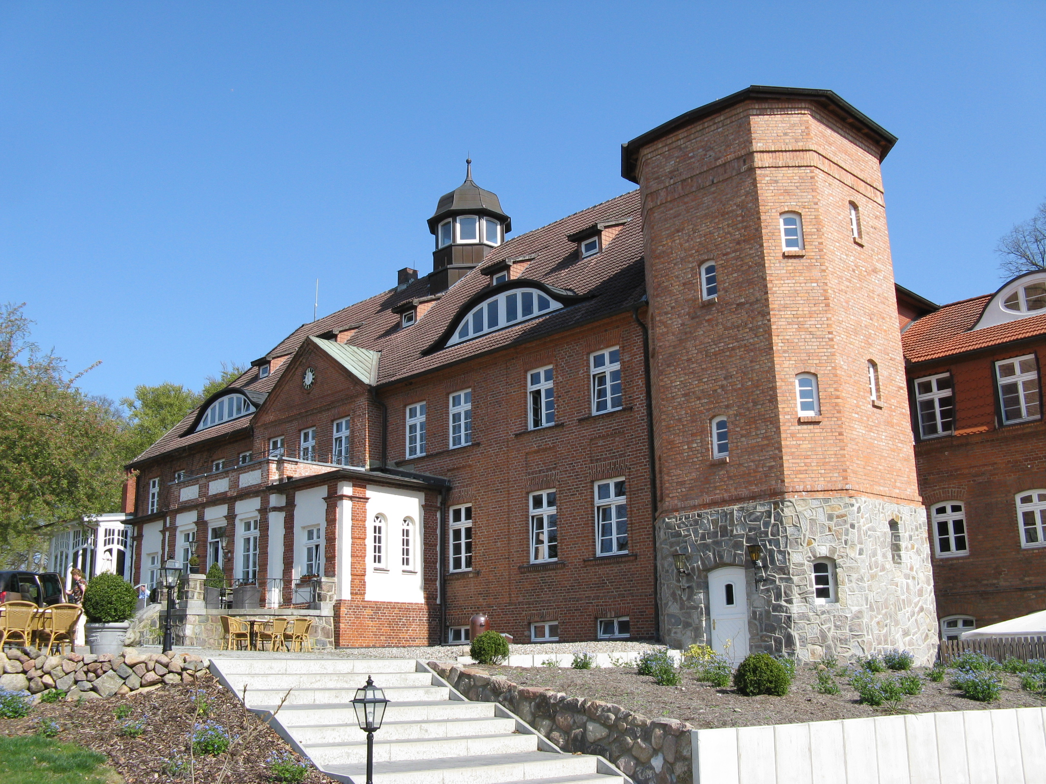 Manor house (castle) Basthorst in Basthorst, disctrict Parchim, Mecklenburg-Vorpommern, Germany